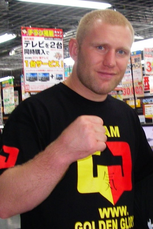 Russian fighter Sergei Kharitonov